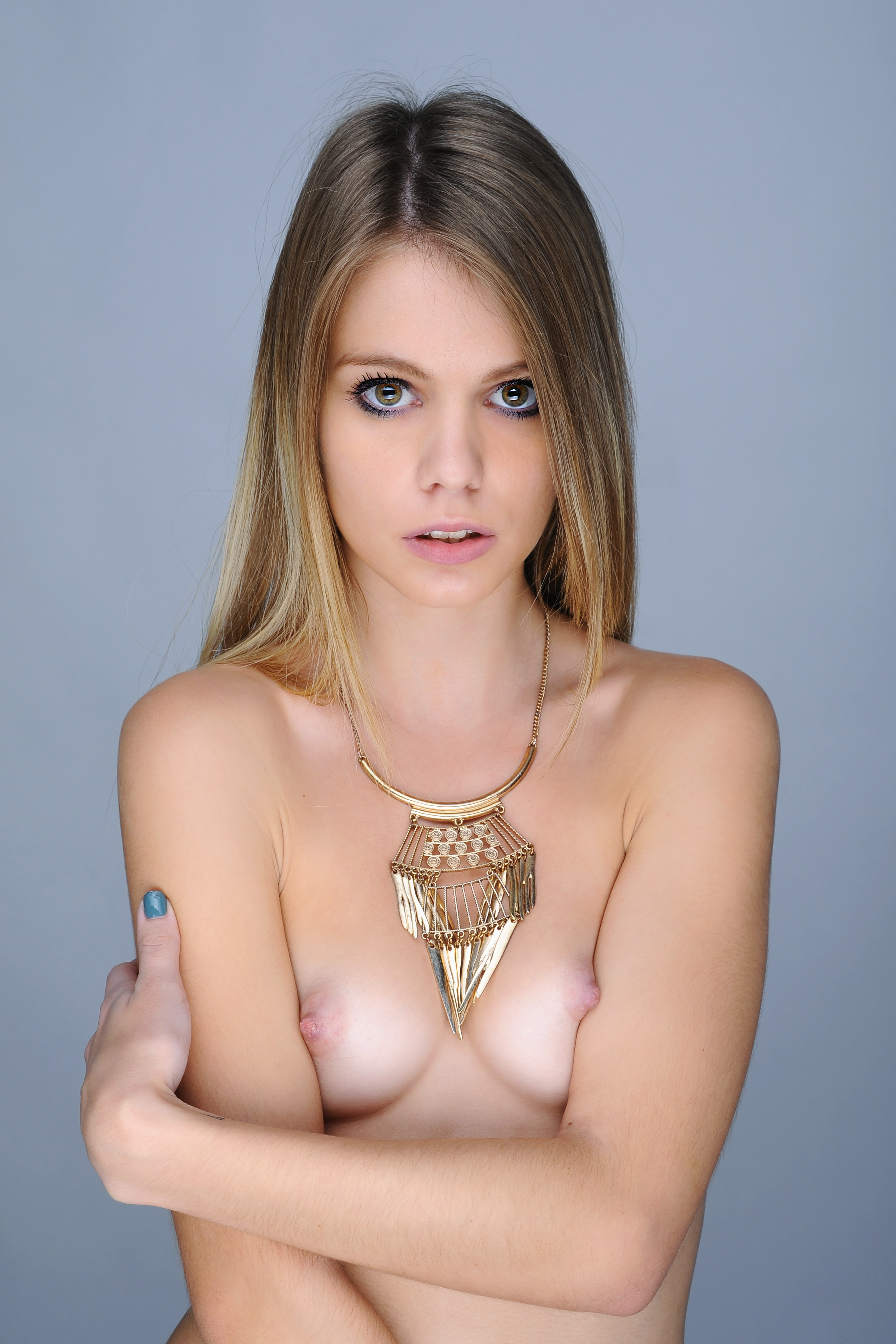 Model Ingrid wearing a gold necklace